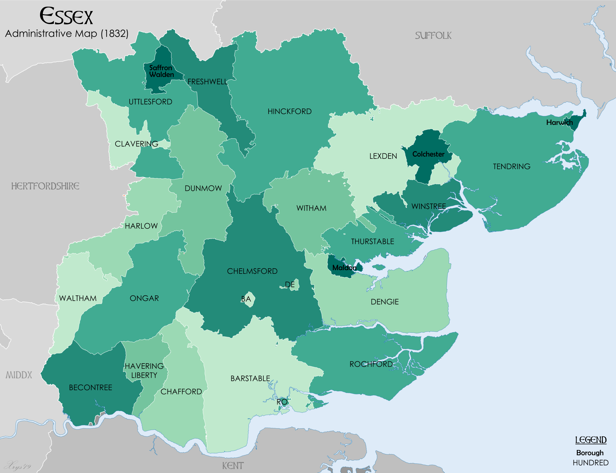 Administrative map of Essex in 1832 showing Hundreds. Also showing extant Boroughs. Hundred boundaries from University of Nottingham English Place Name Society. Source data for parish boundaries - Kain, R.J.P., and Oliver, R.R. (2001) "Historic parishes of England and Wales". Unit names and Borough Boundaries from Vision of Britain website.